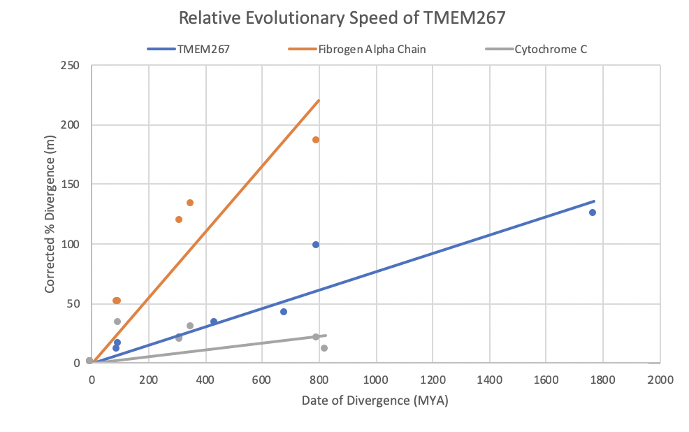 Percent similarity of TMEM267 and orthologs found using BLAST were then compared to the estimated Date of Divergence of these orthologs from humans. The same was done for Fibrinogen Alpha Chain and Cytochrome C to get an estimated evolutionary speed of TMEM267.